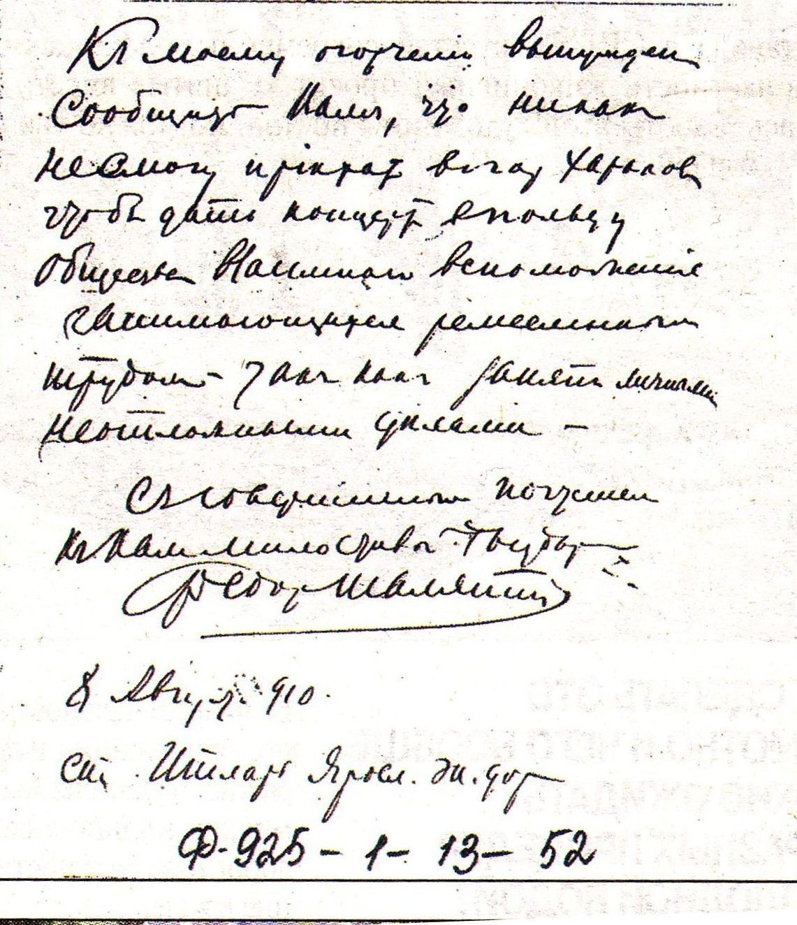 Russians Fedor Chaliapin signature on his letter.